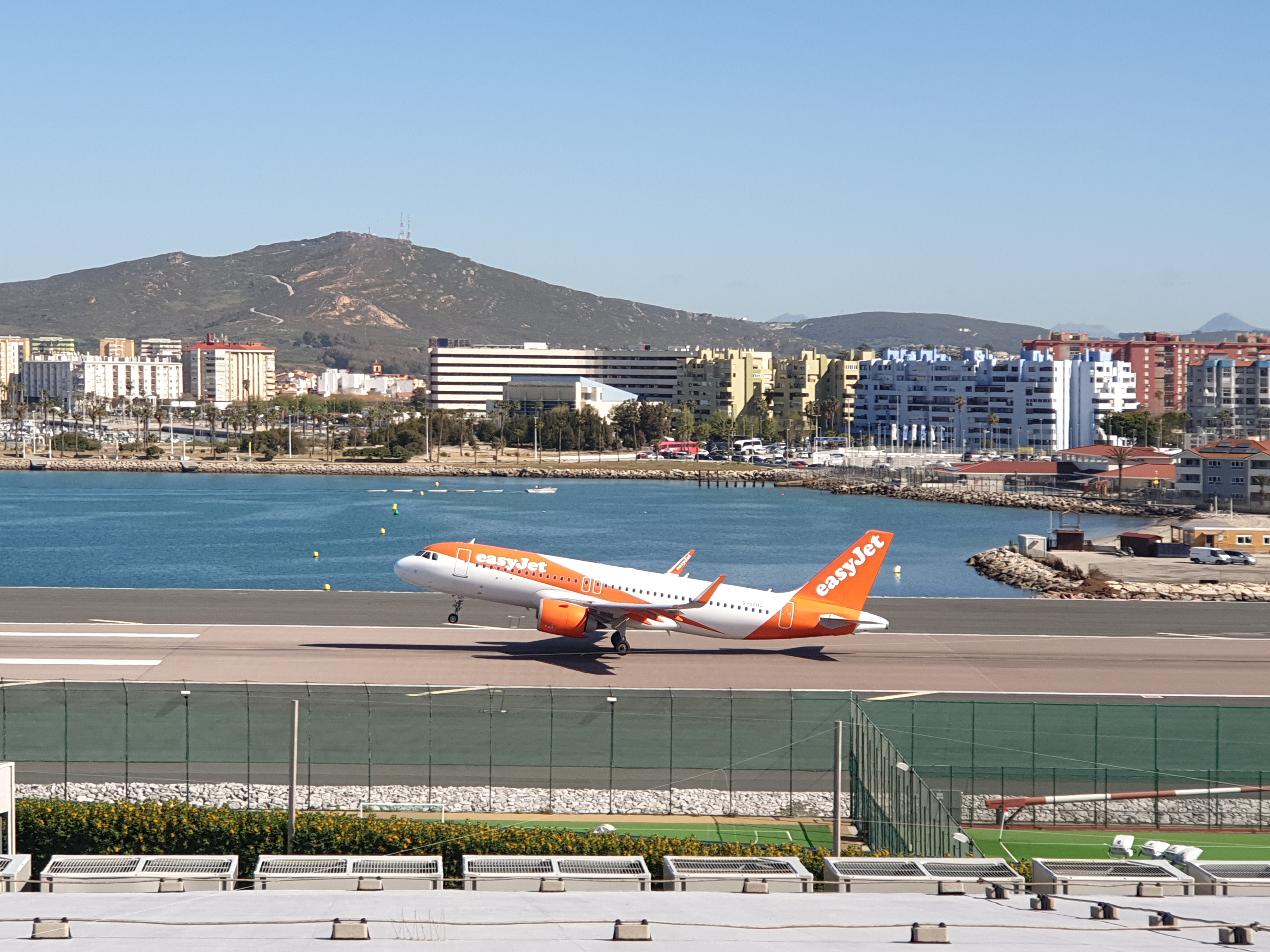 EasyJet aircraft take off at Gibraltar International Airport.